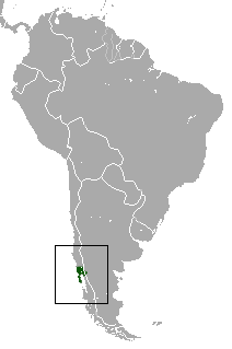 Chilean Caenolestid (Rhyncholestes raphanurus) range